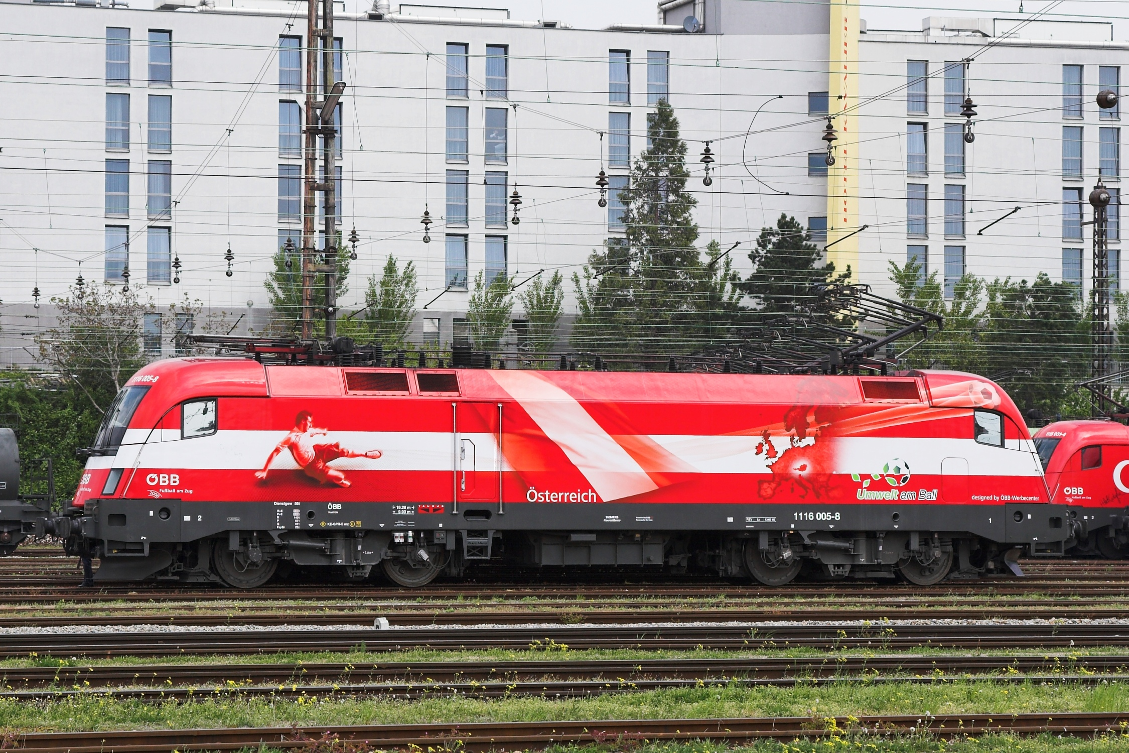 ÖBB Taurus engine with UEFA Euro 2008 special design: 1116 005-8 Austria at the former Wien Penzing shunting yard.